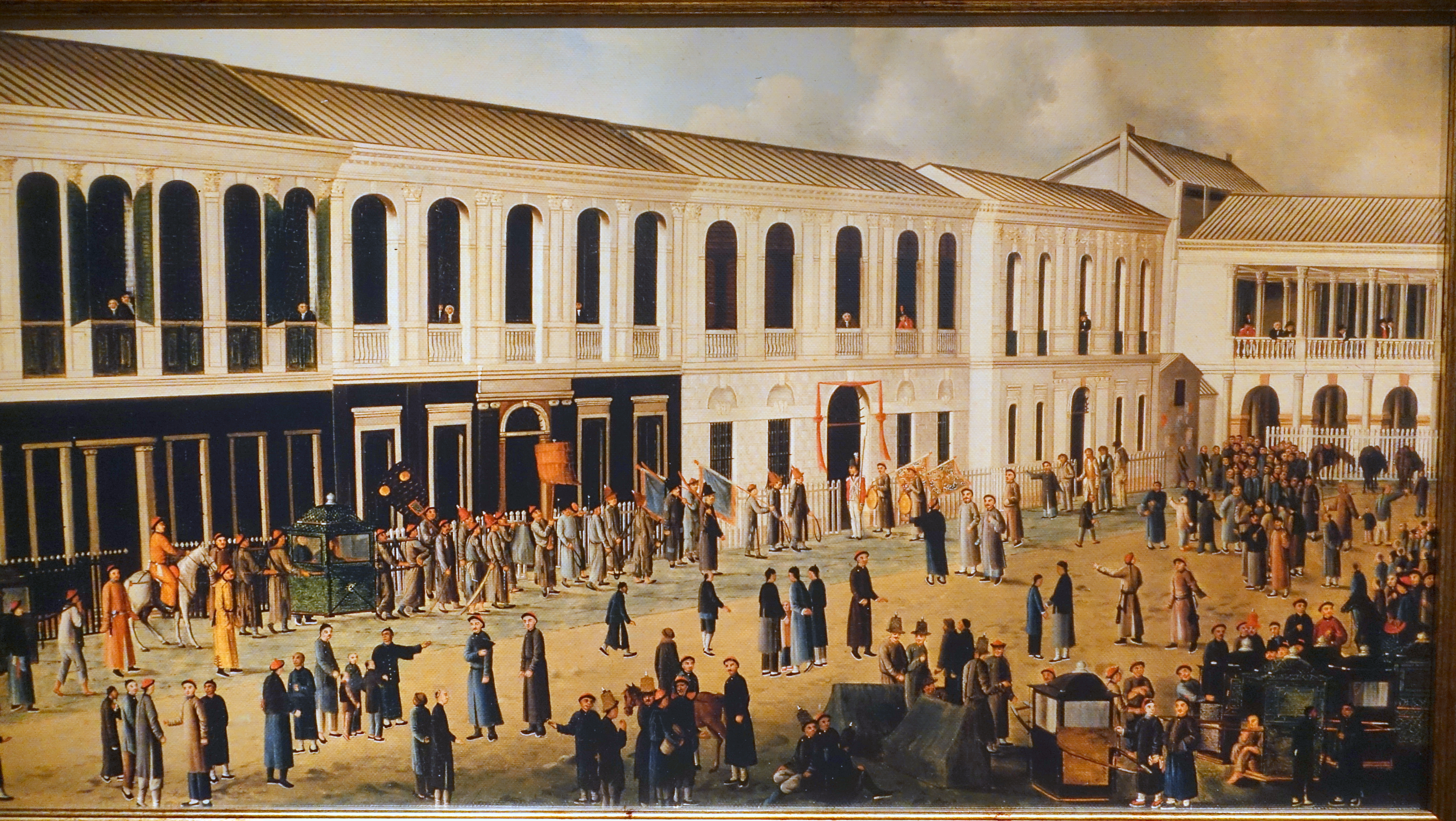 A painting depicting a close view of the 13 factories of Guangzhou c. 1807. Photographed with permission at an exhibit in the Hong Kong Museum of History.